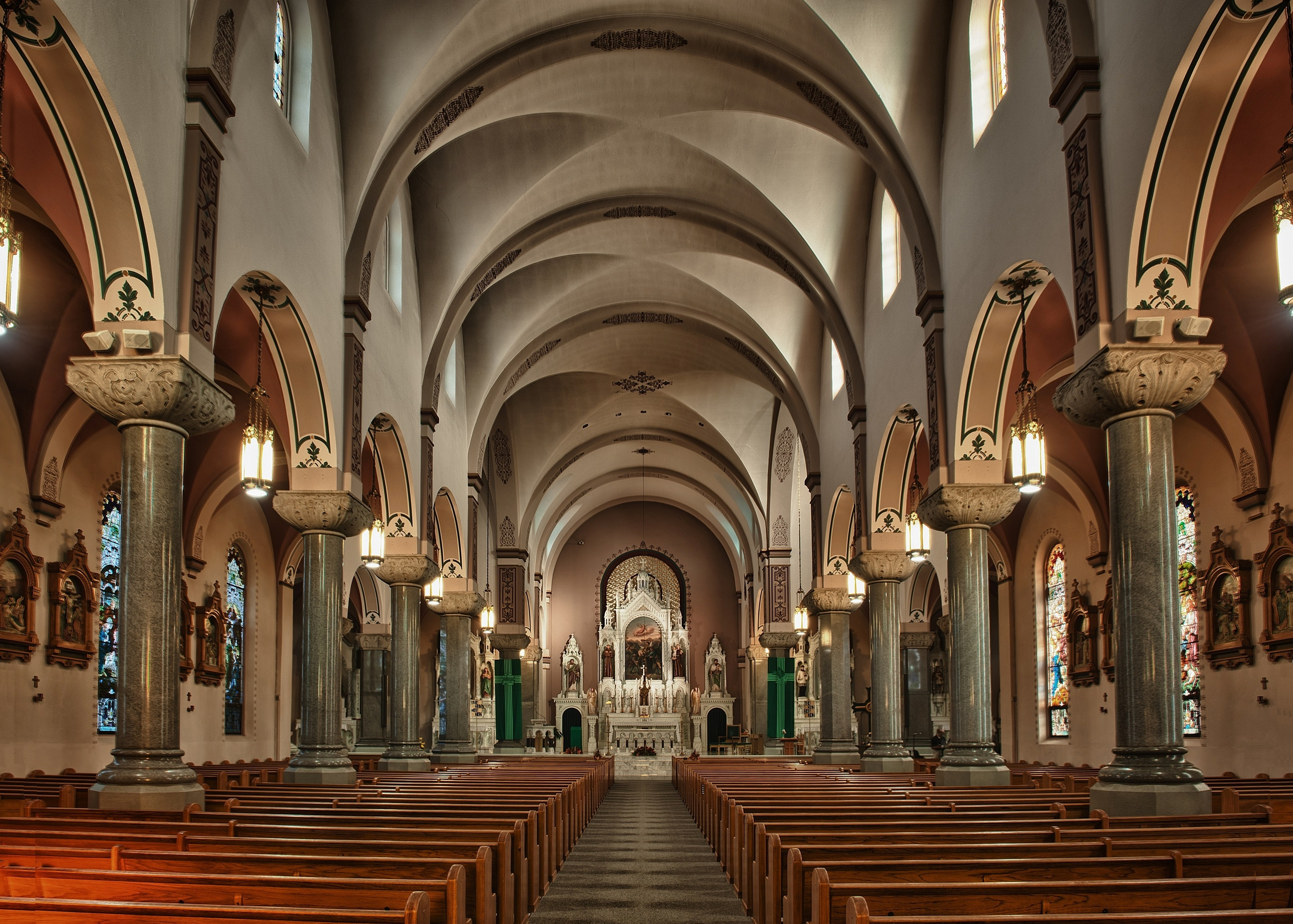 St. Fidelis Catholic Church is the "Cathedral of the Plains" located in Victoria, Kansas.